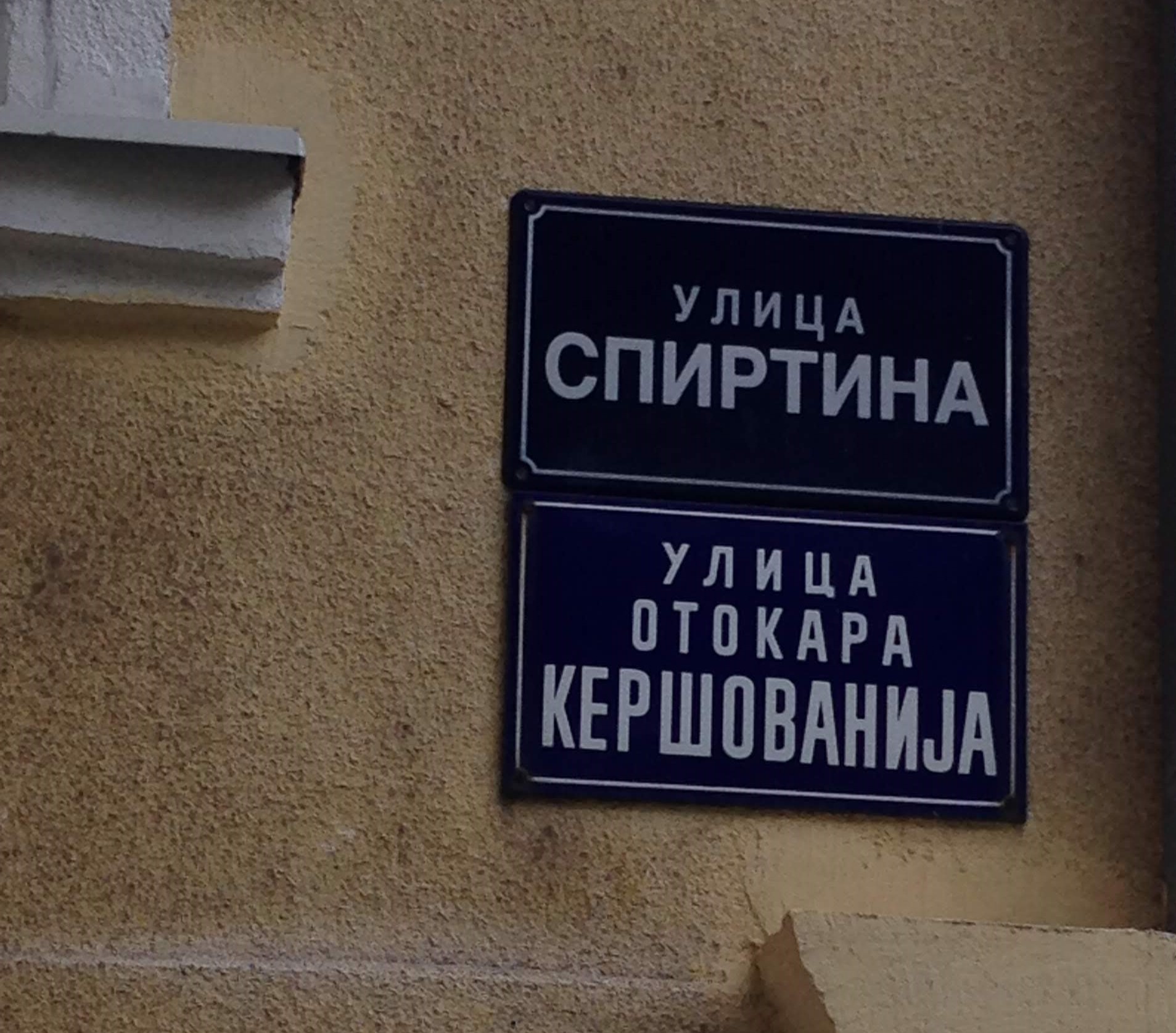 Spirtina street.